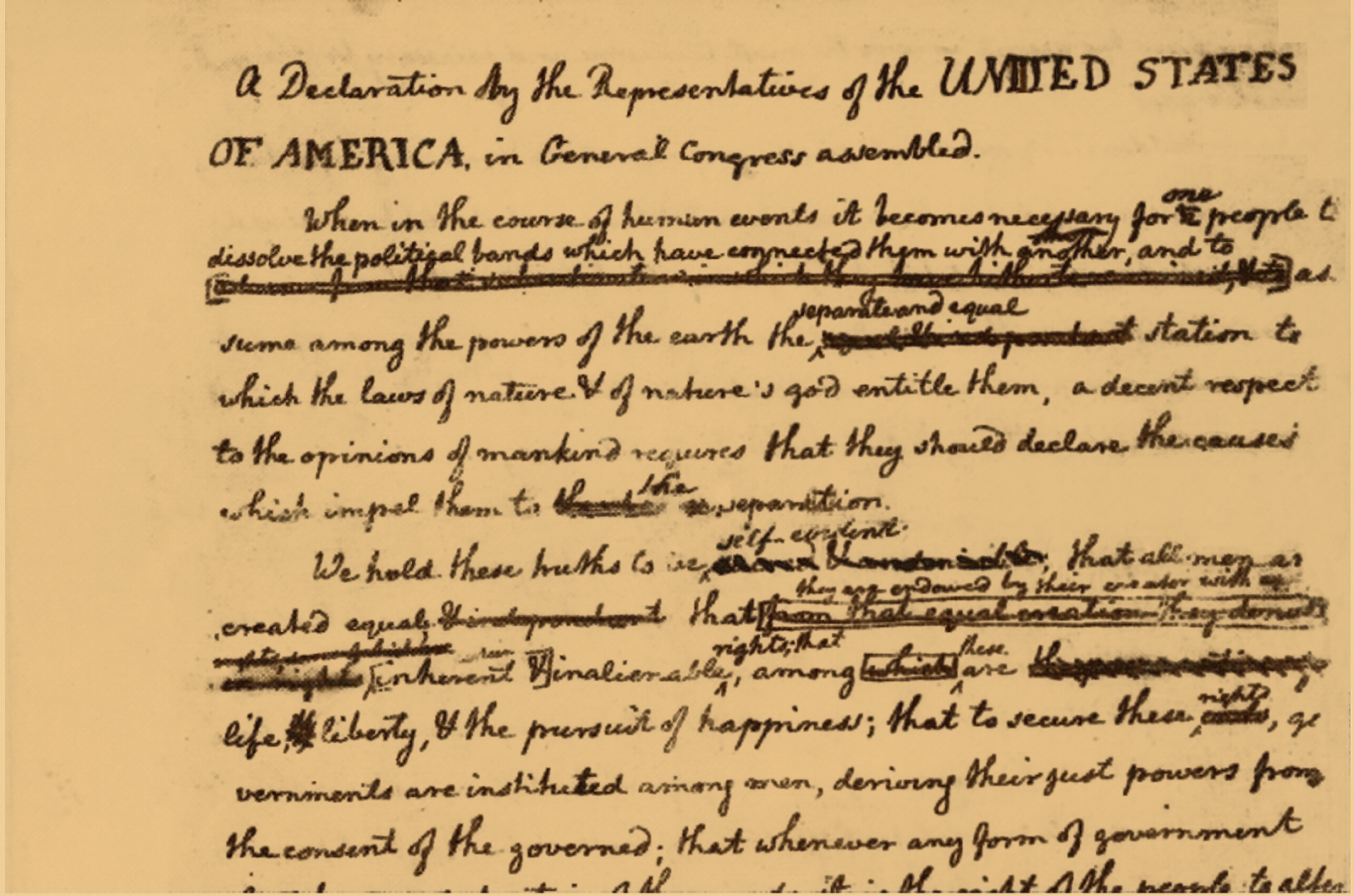 Realizing the importance of the writing of the Declaration of Independence for the American Revolution and posterity, Thomas Jefferson prepared his Notes of Proceedings in Congress, June 7–August 1, 1776. He included a copy of the Declaration as it was presented to Congress on June 28 and amended by them in the days leading up to its final approval by Congress on July 4, 1776. In 1781, James Madison asked Jefferson for his account of those tumultuous and pivotal days, and Jefferson sent him these "notes".